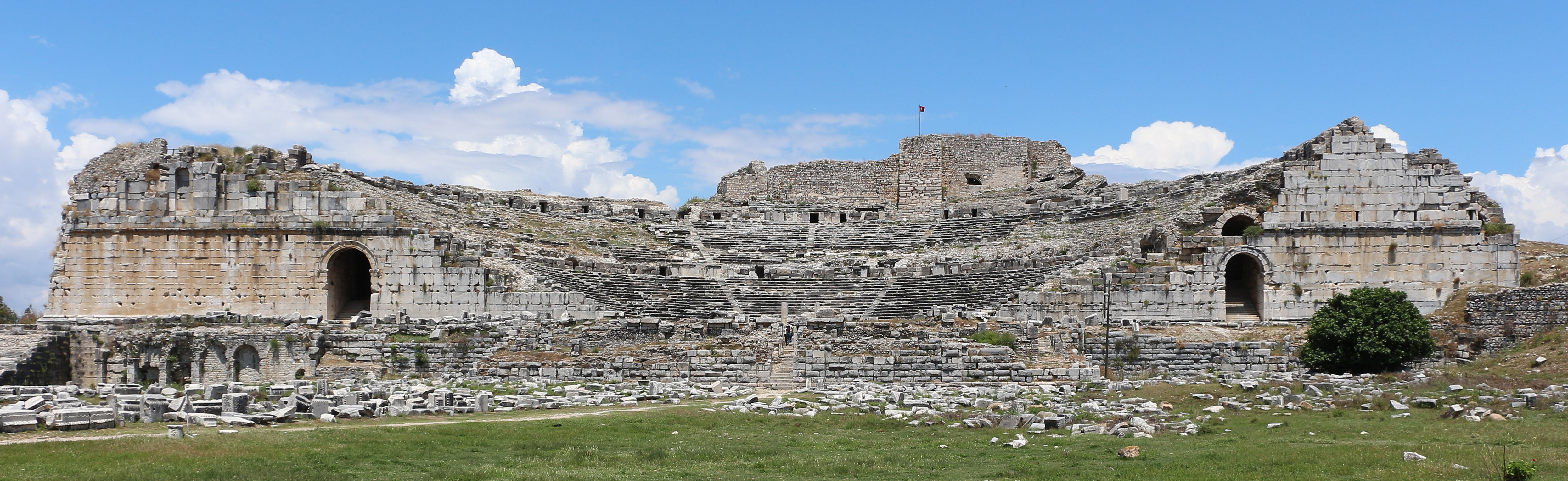 Ancient Greek theatre in Miletus, Turkey